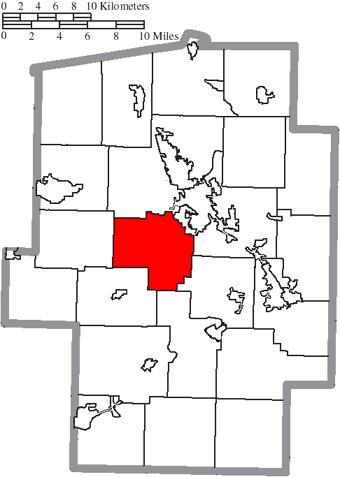 Map of the municipal and township boundaries of Tuscarawas County, Ohio, United States, as of the 2000 census, with the location of York Township highlighted. Township borders are shown only in unincorporated areas in order to differentiate incorporated and unincorporated areas more clearly.